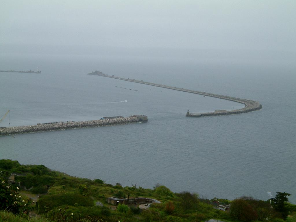 Portland harbour's south entrance